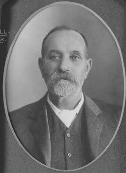 Thomas Rees - Mayor of Brisbane